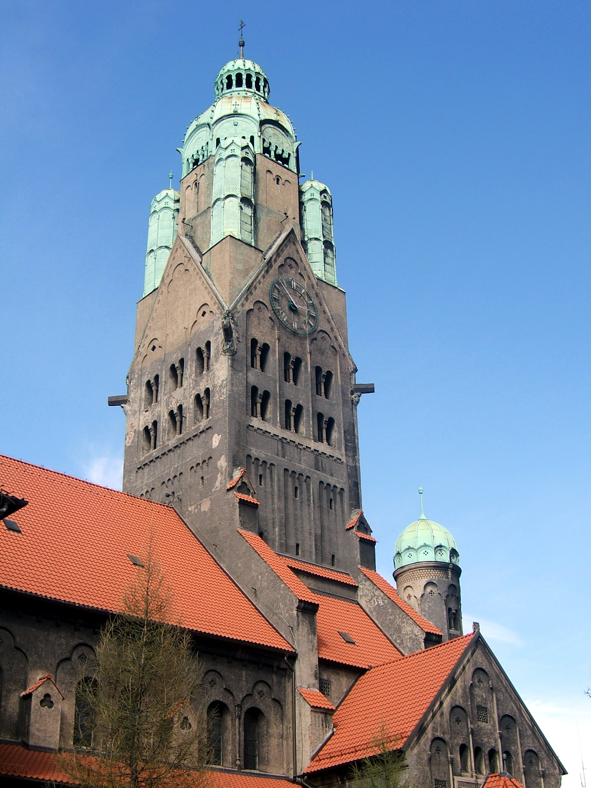 Tower of St. Paul's church in Nowy Bytom, a district of Ruda Śląska.